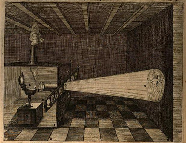 caption: "Fig. 404. The Magic Lantern of Kircher. (From the Ars Lucis et Umbrae, 1671, p. 768) The lamp is a naked flame with a concave reflector behind it. The lantern slide is a long strip with many pictures which can be shown one after the other. The lantern slide appears at the wrong end of the projection objective, making it difficult to see how any image could be projected. At the bottom of the picture is a part of the text in which the better form of Walgenstens's lantern is conceded."